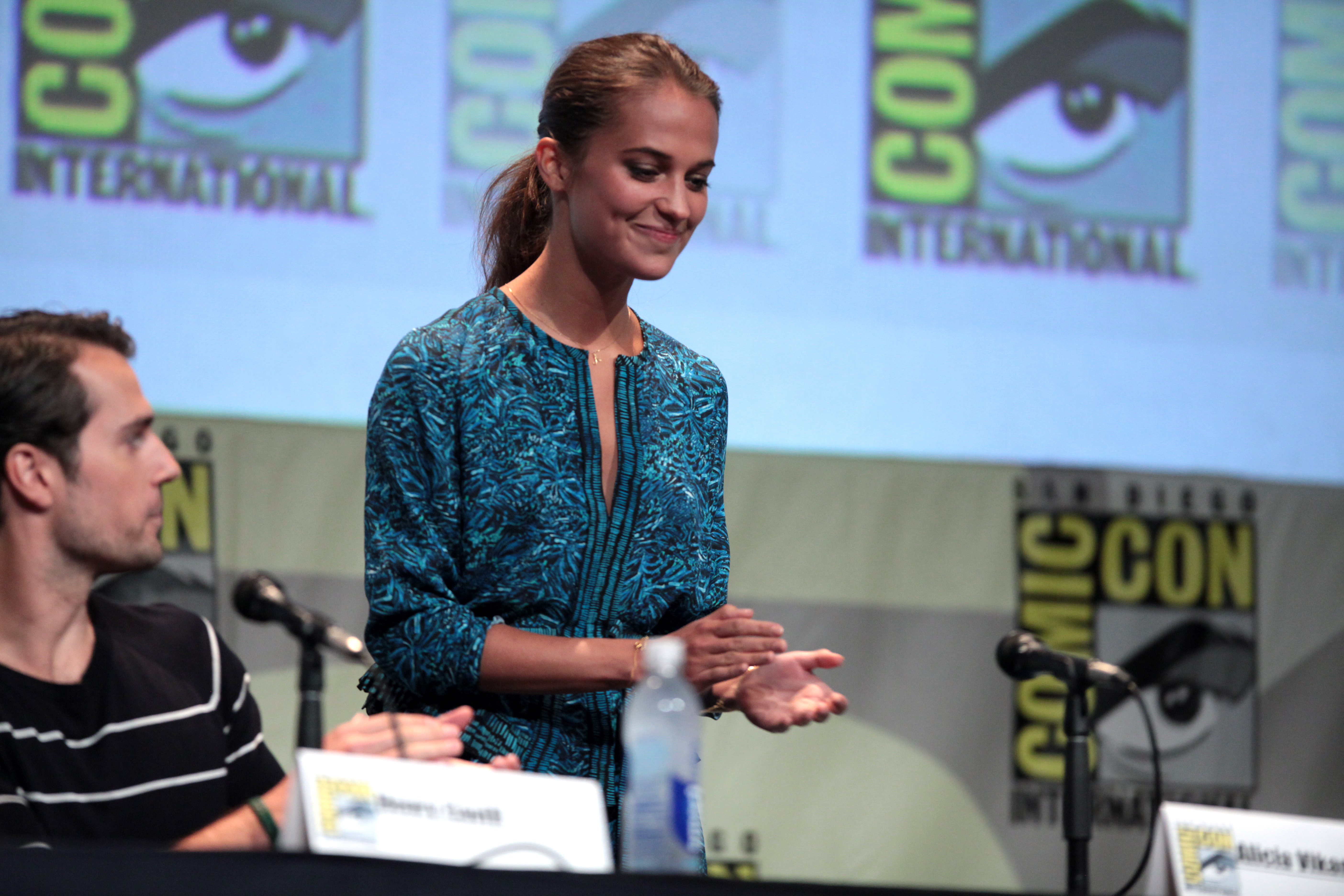 Alicia Vikander at the 2015 San Diego Comic Con